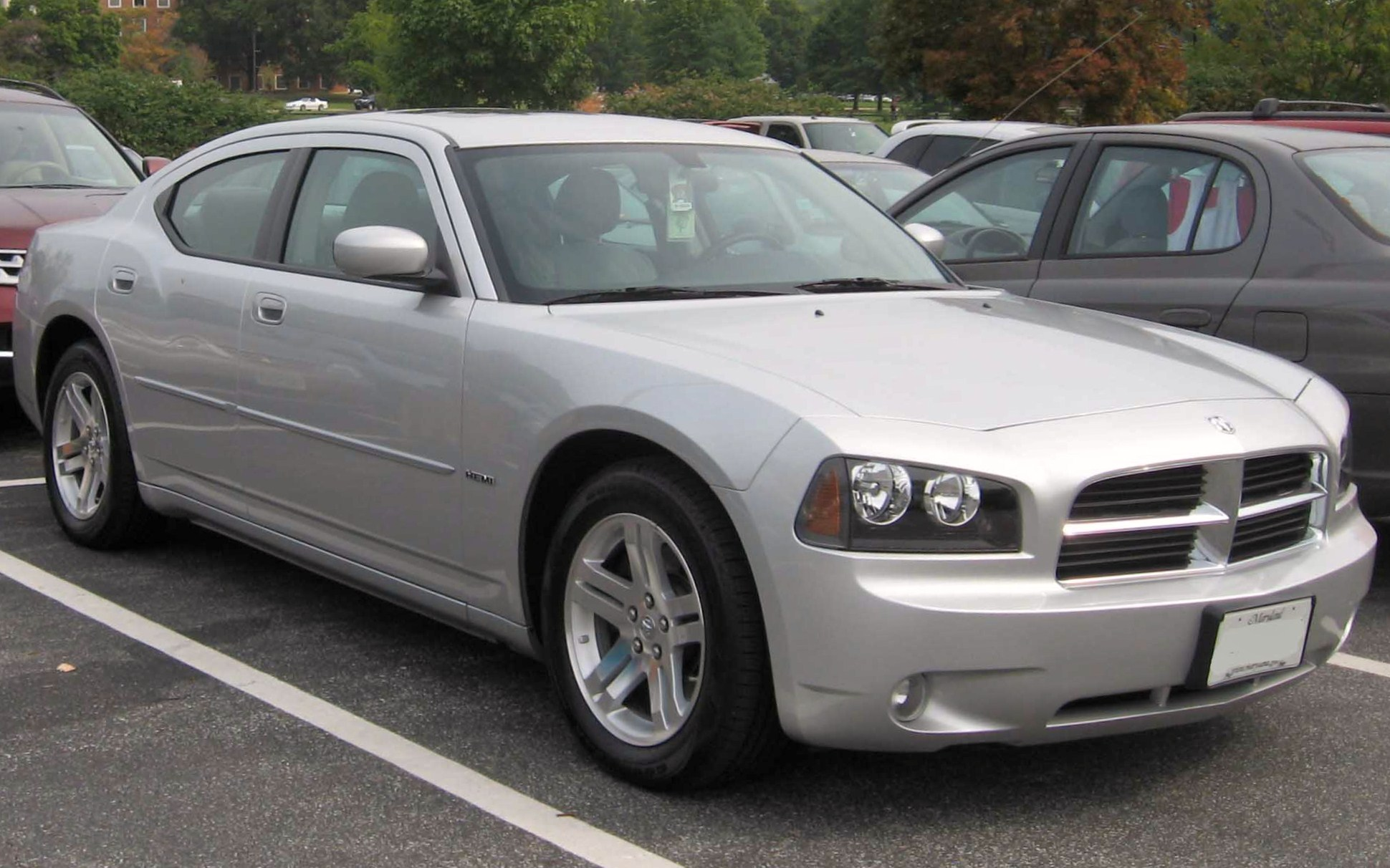 2006-2007 Dodge Charger R/T photographed in College Park, Maryland, USA.